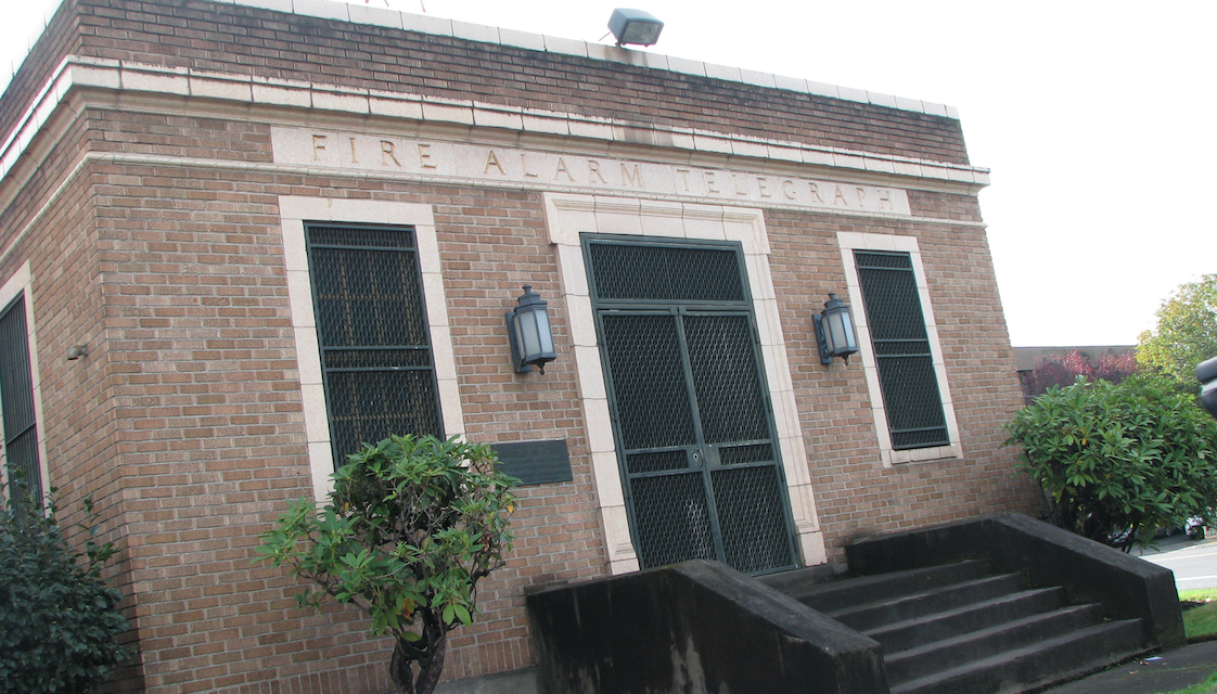 Former Fire Alarm Telegraph building in Portland, OR built in 1928.